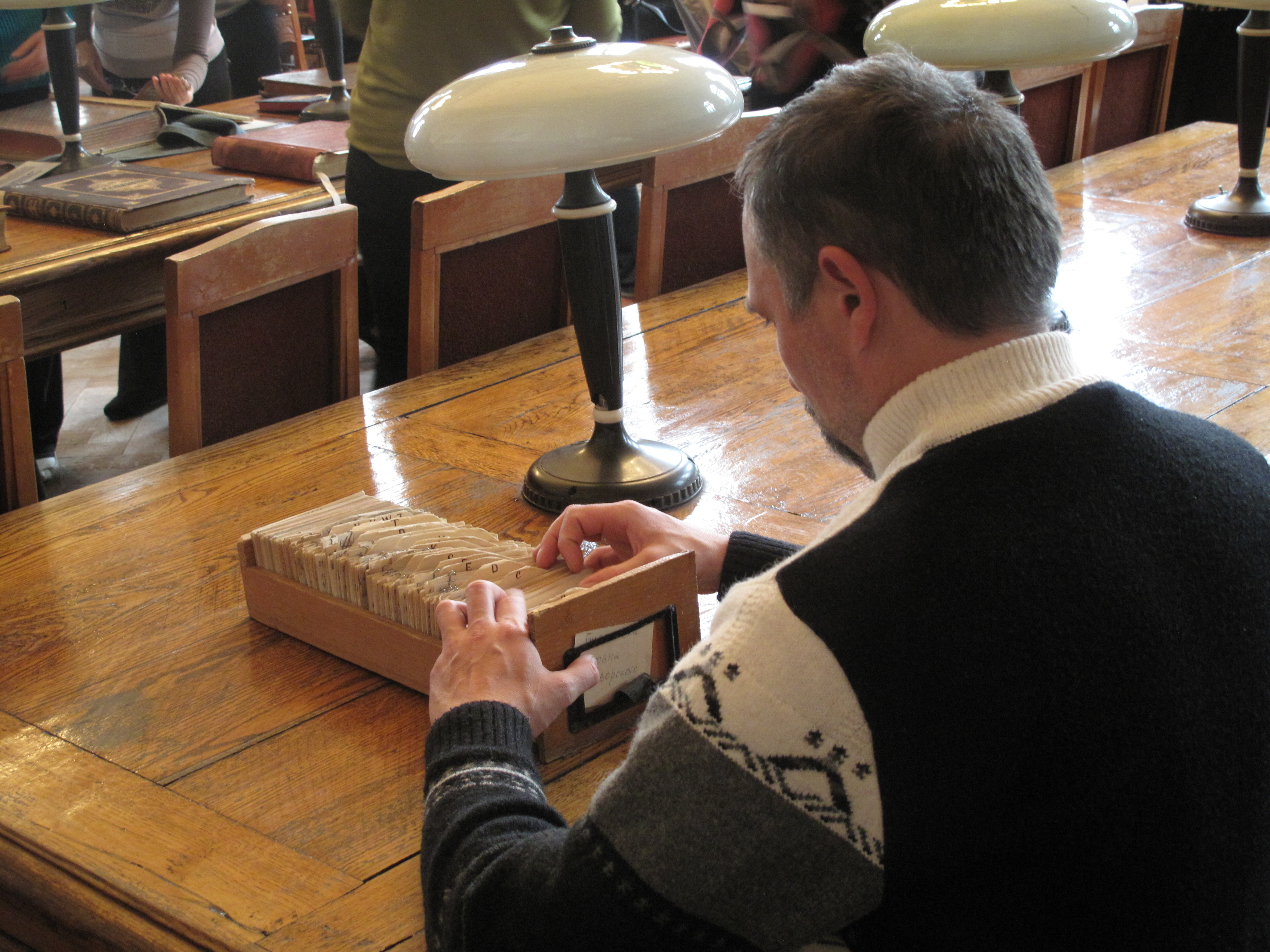 Scholar in the library